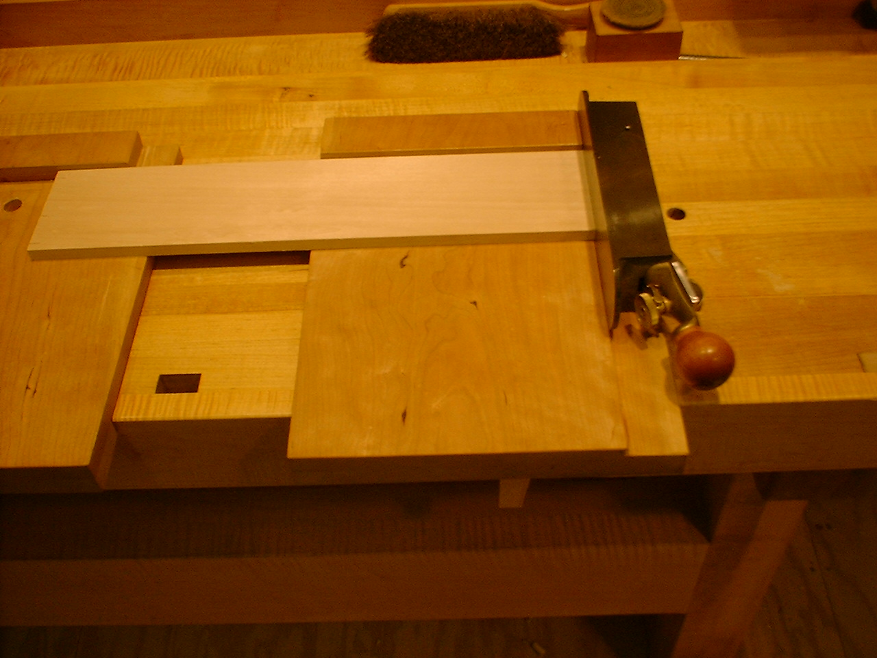 Right angle shooting board